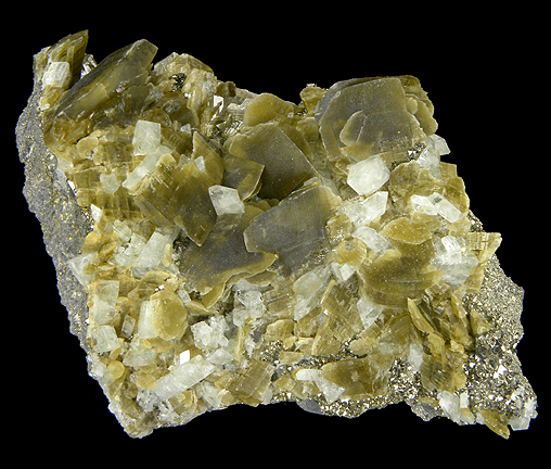 Augelite, Siderite Locality: Tazna Mine (Tasna Mine; Tazna-Rosario Mine), Cerro Tazna, Atocha-Quechisla District, Nor Chichas Province, Potosí Department, Bolivia (Locality at ) Size: 9.0 x 6.5 x 1.9 cm. This material was some of the first to come out of Bolivia in a long time. This piece features dozens of large (for this mine), sharp, highly lustrous, gemmy crystals measuring up to 8.5 mm of Augelite associated with greenish-brown compressed rhombohedra of Siderite with Pyrite and micro Quartz on matrix. This specimen is from the find about 7 years ago, when some of the most impressive Augelites came out of Tazna.